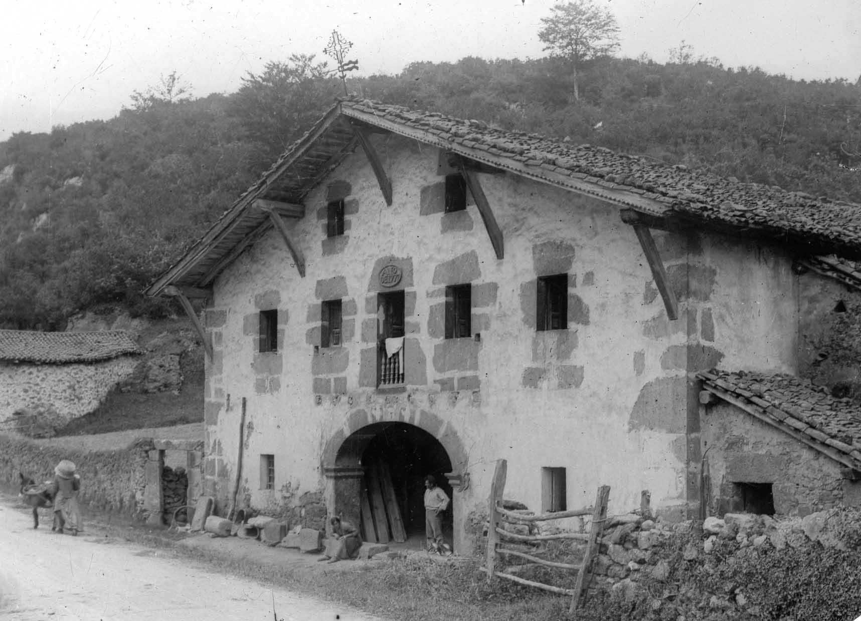 A baserri (Basque farmhouse) in Gizaburuaga